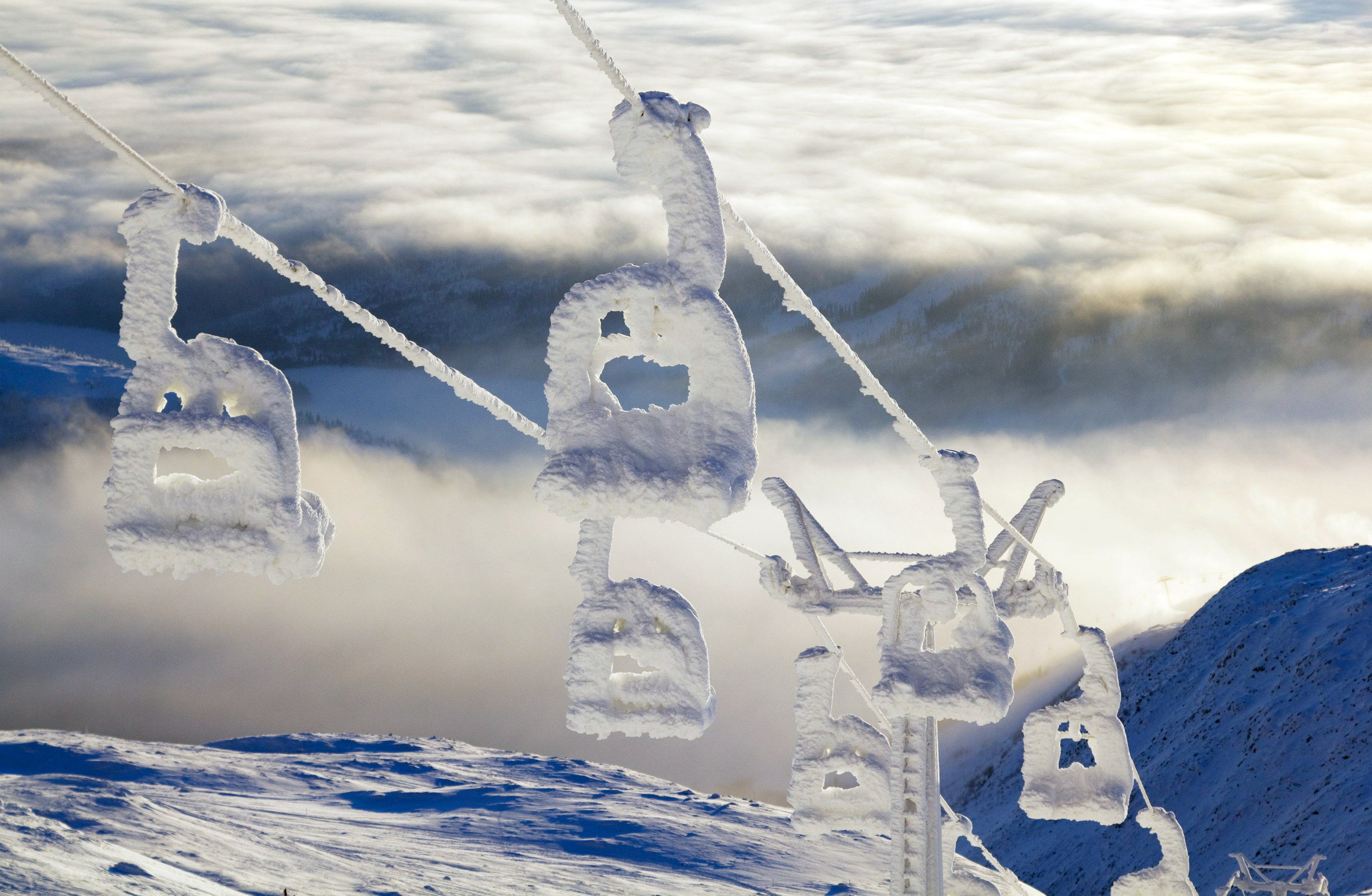 A Snowy Ski lift on top of Åreskutan, in Sweden.